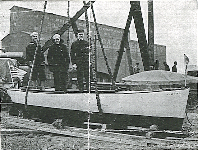 D League, picture taken by unknown of my Great Great Grandfather's boat, found while cleaning.